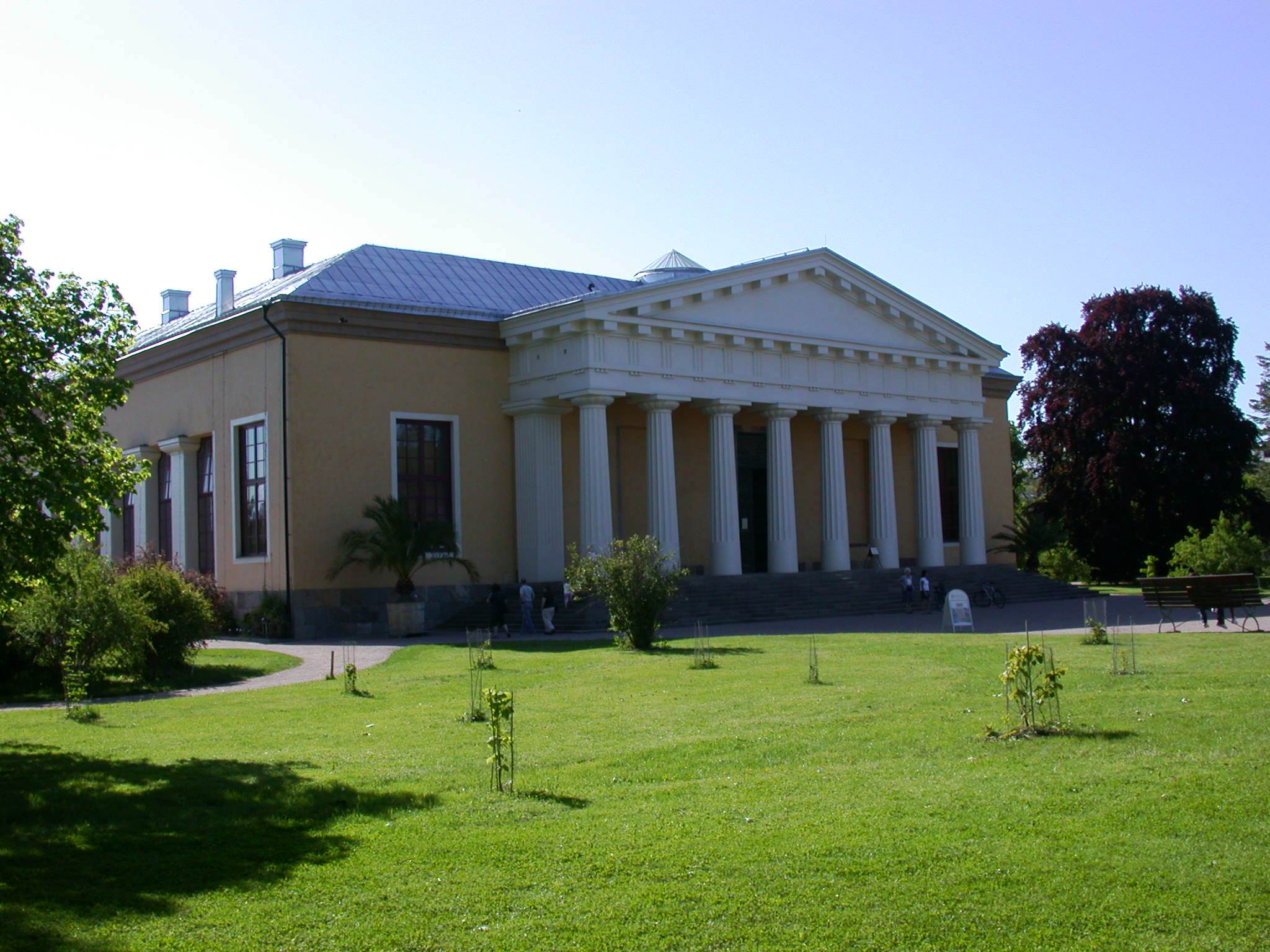 Orangerie Linneanum, Botanical gardens of Uppsala, Uppsala, Sweden.